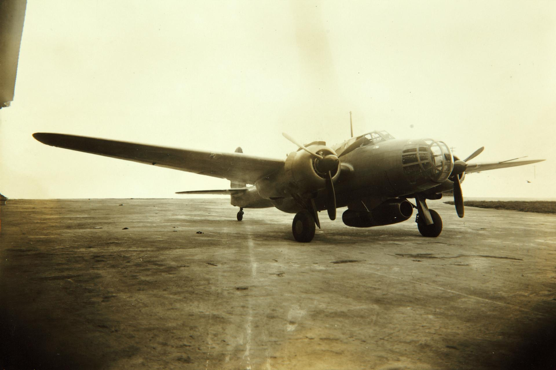 Catalog #: 01_00081929 Title: Kawasaki, Ki-48, Lily Corporation Name: Kawasaki Official Nickname: Lily Additional Information: Japan Designation: Ki-48 Tags: Kawasaki, Ki-48, Lily Repository: San Diego Air and Space Museum Archive